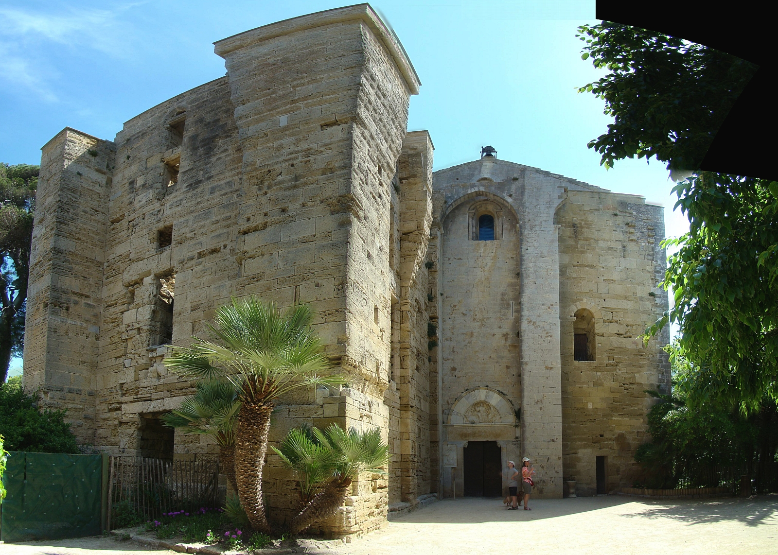 Cathedral Saint-Pierre of Maguelone or in french Cathédrale Saint-Pierre de Maguelonne (ancienne) on the island Maguelone near Montpellier and near Villeneuve-lès-Maguelone.